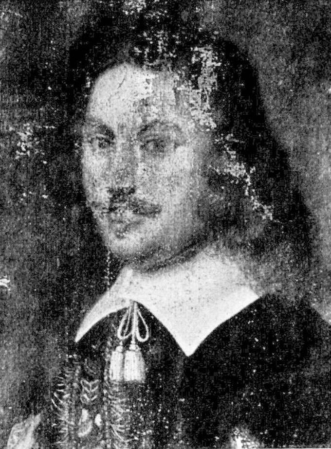 Swedish diplomat and lawyer Gustaf Bielke (1618-1661). Photograph of Contemporary oil painting in Bettna kyrka, Sweden.